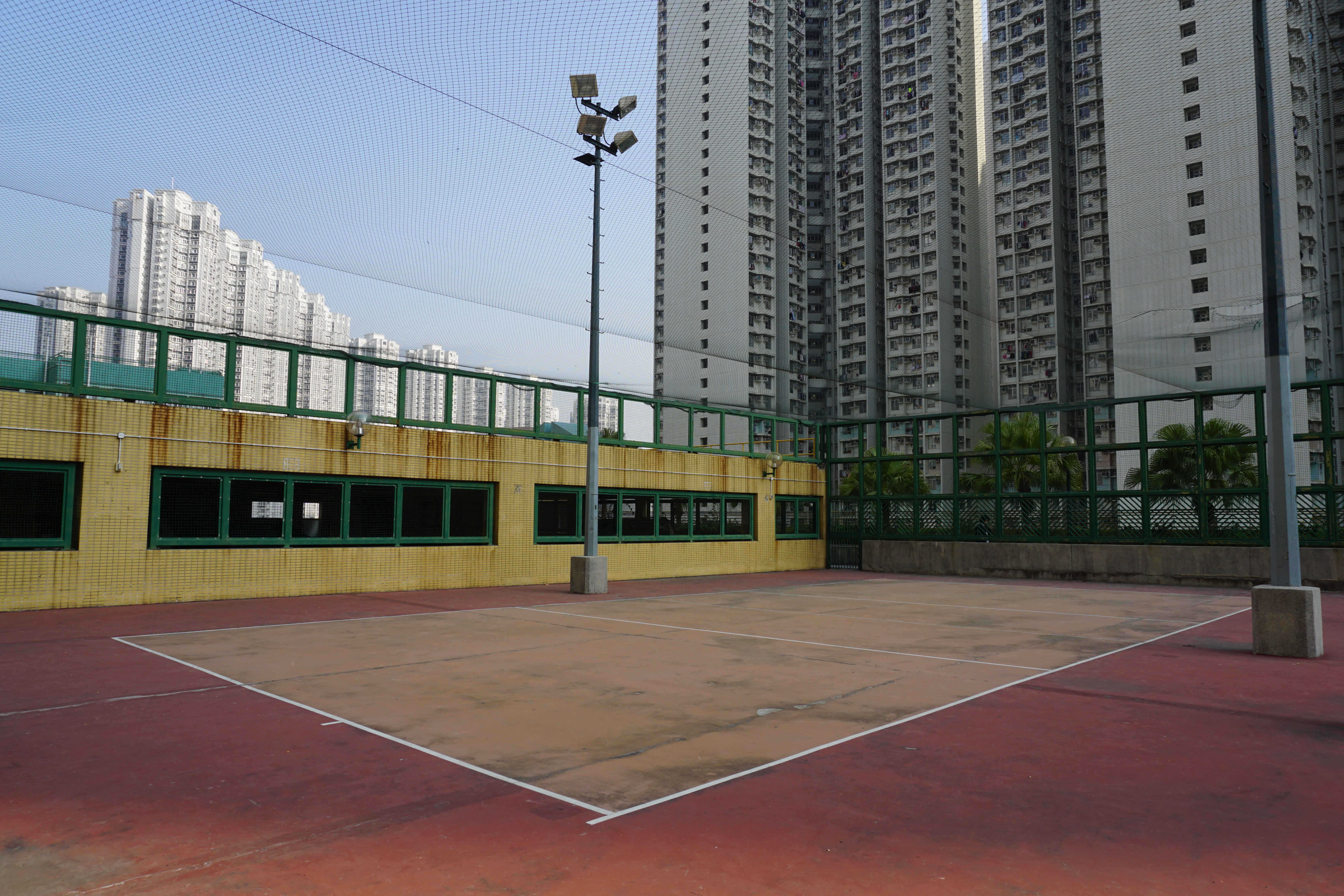 Tin Yuet Estate in Tin Shui Wai, Hong Kong.